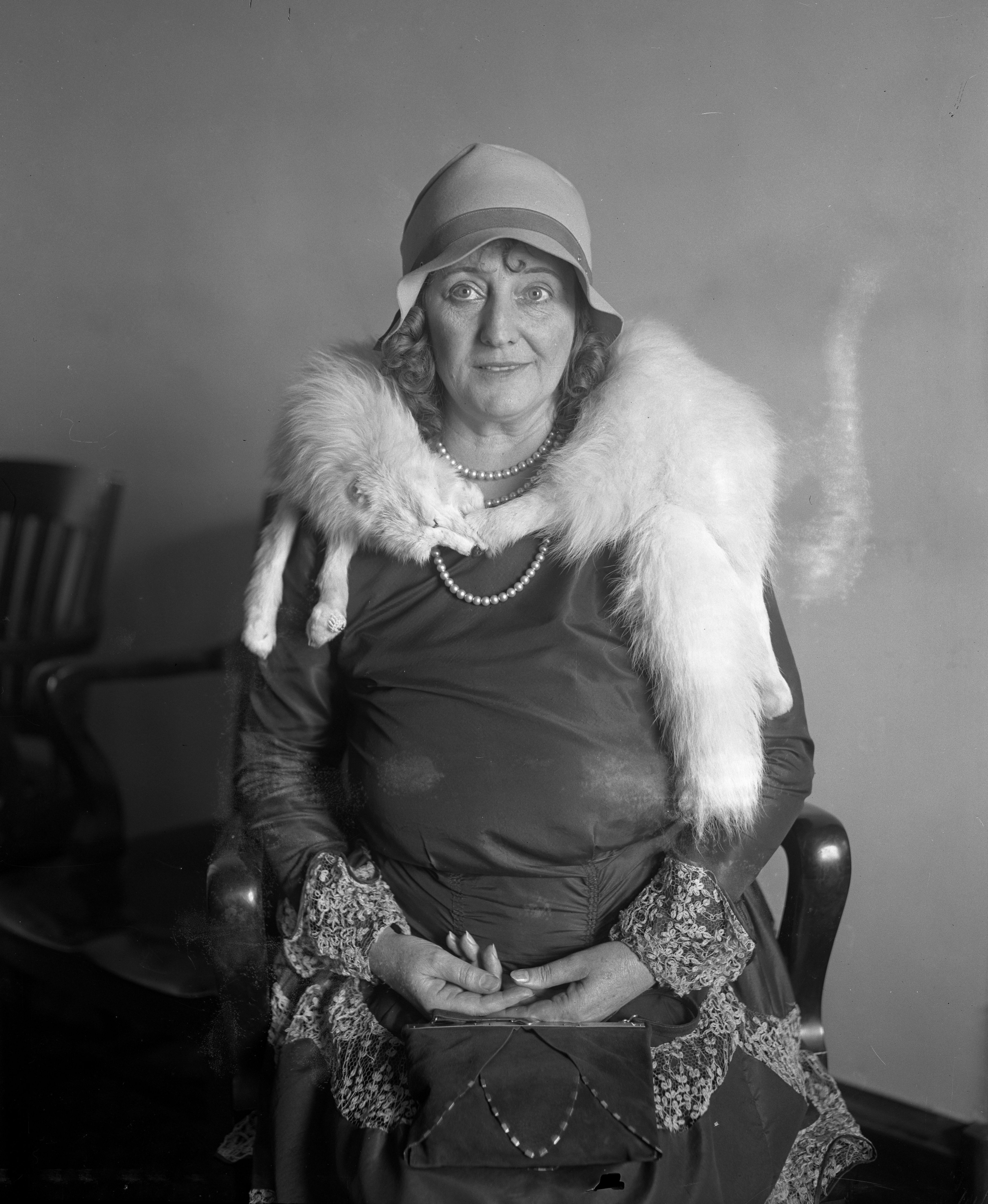 Portrait of Walburga Oesterreich, circa 1930.